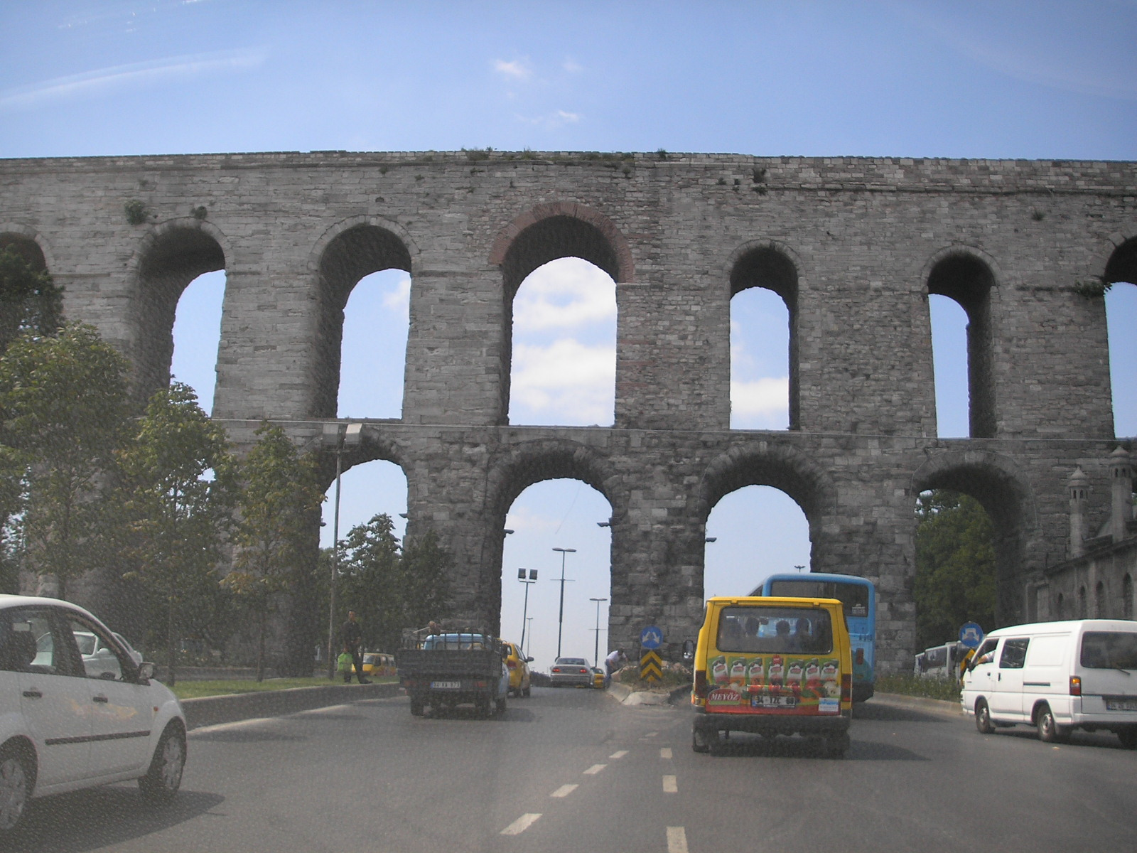 View of the Valens Aqueduct seen from the street, in Istanbul.